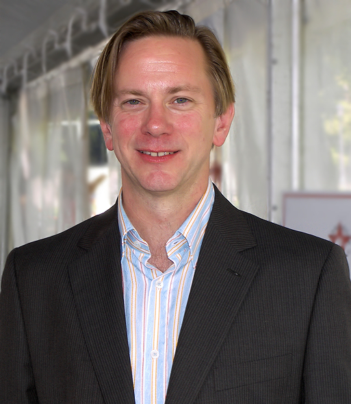 Author Robert Draper at the 2007 Texas Book Festival, Austin, Texas, United States.